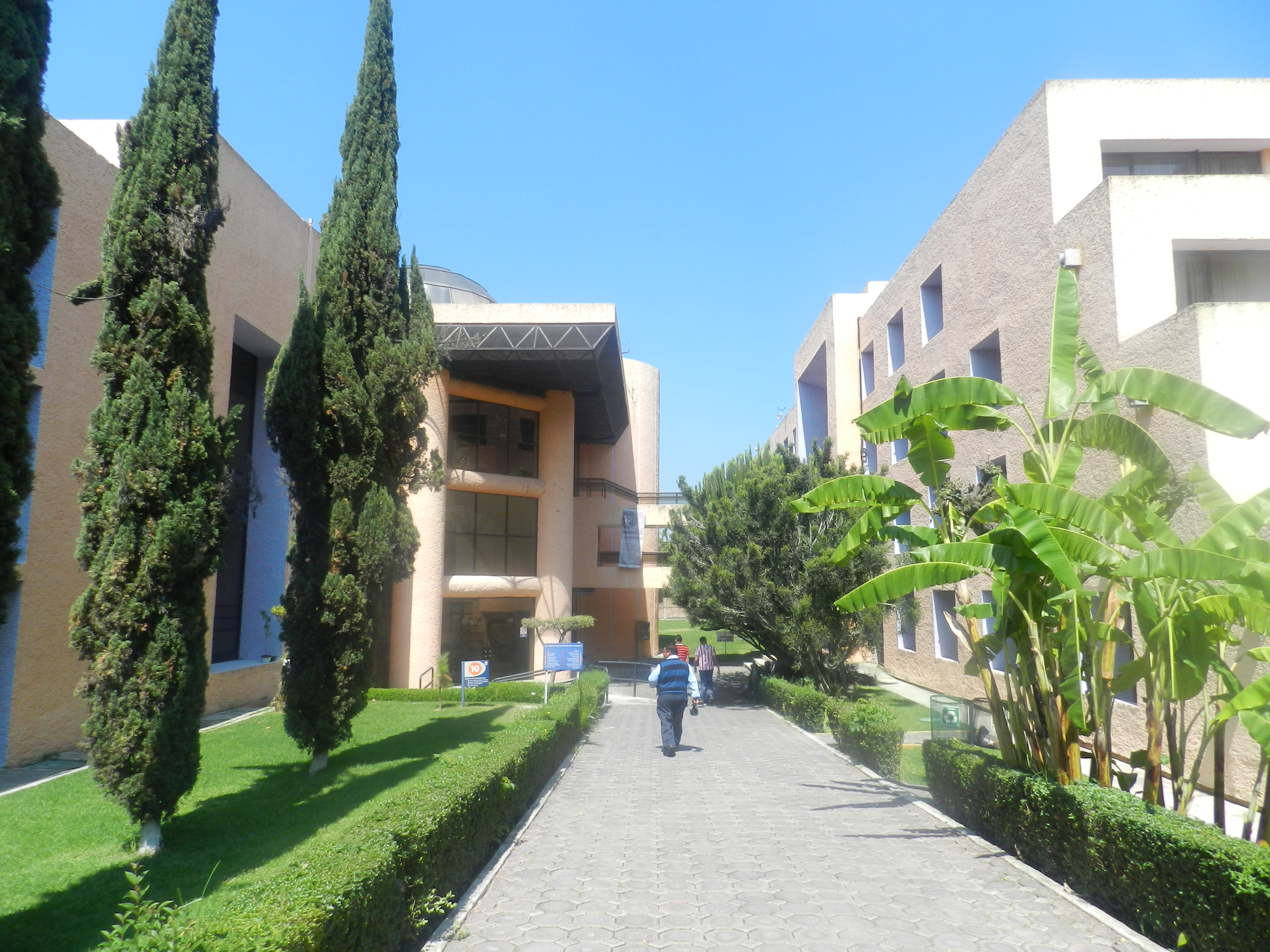 Main facilities of National Institute of Astrophysics, Optics and Electronics in Puebla, Mexico.